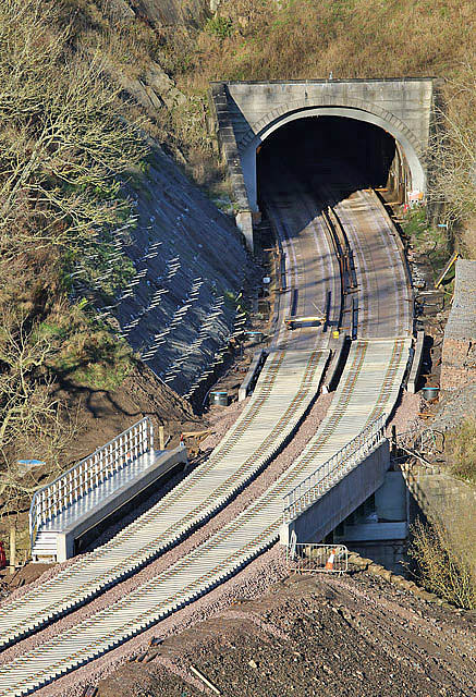 The Borders Railway works at Bowshank